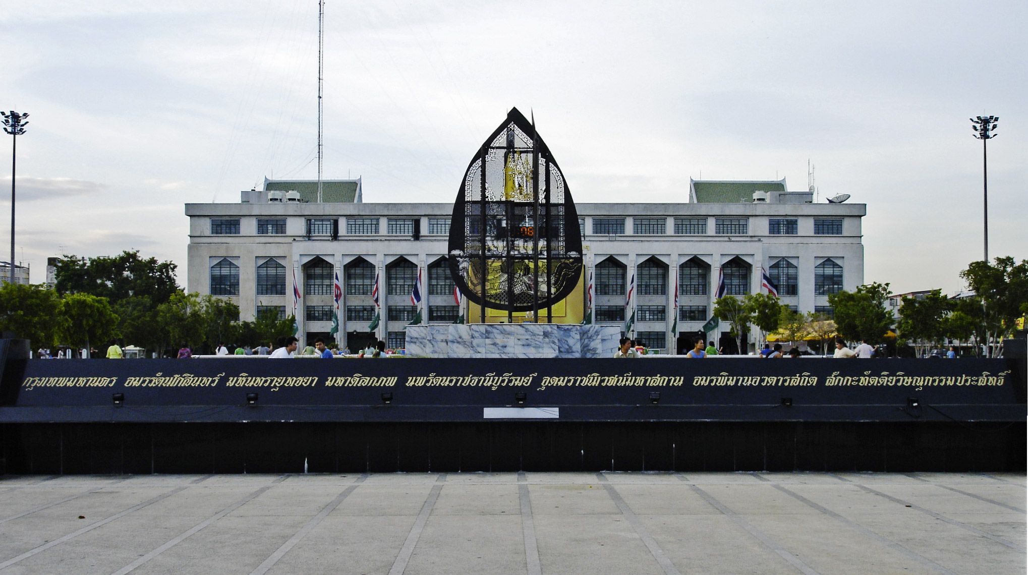 The full name of Bangkok is written in front of Bangkok administrative building